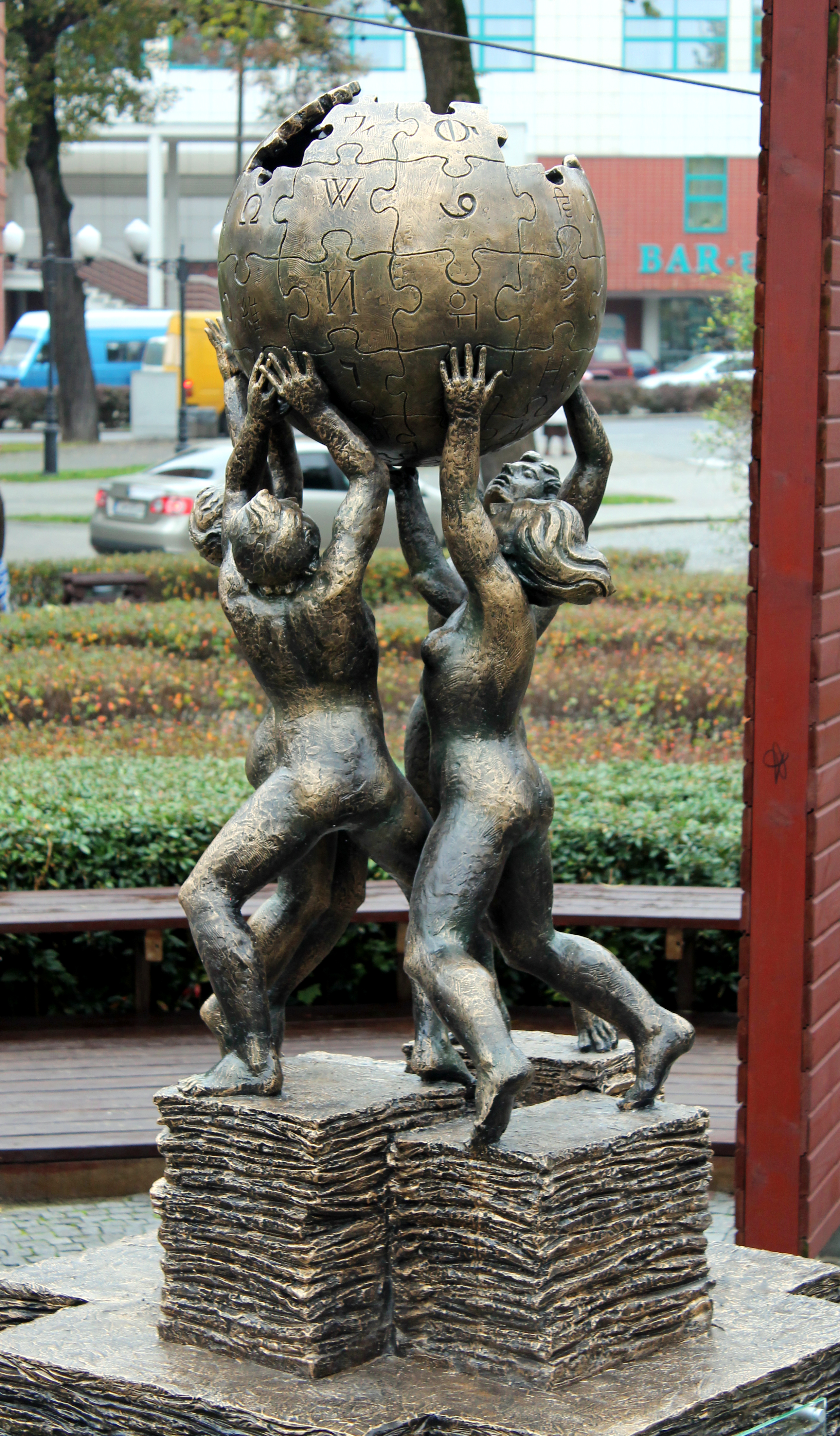 Mihran Hakobyan's Wikipedia Monument in Słubice, Poland.